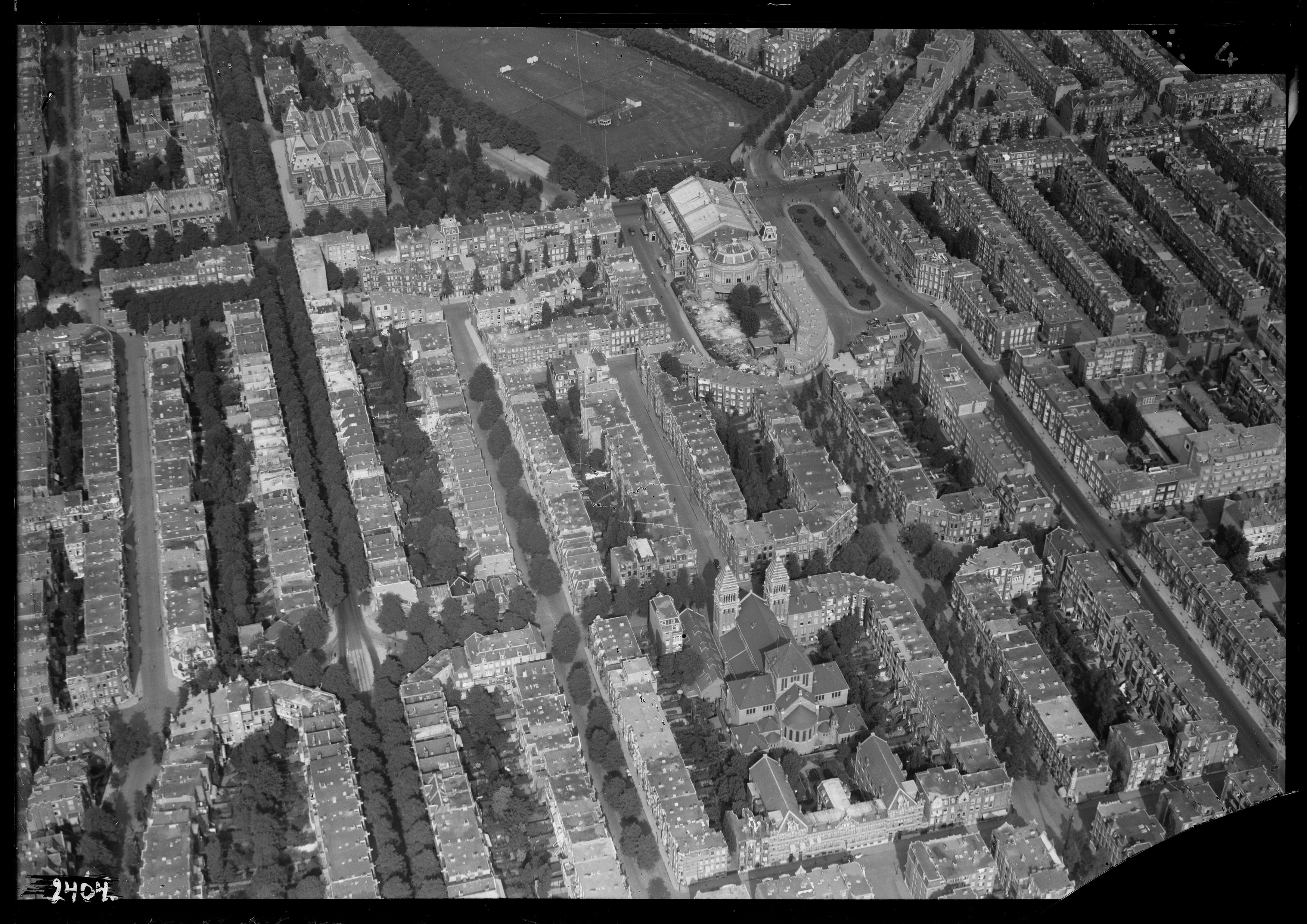 Aerial photograph of Amsterdam, The Netherlands